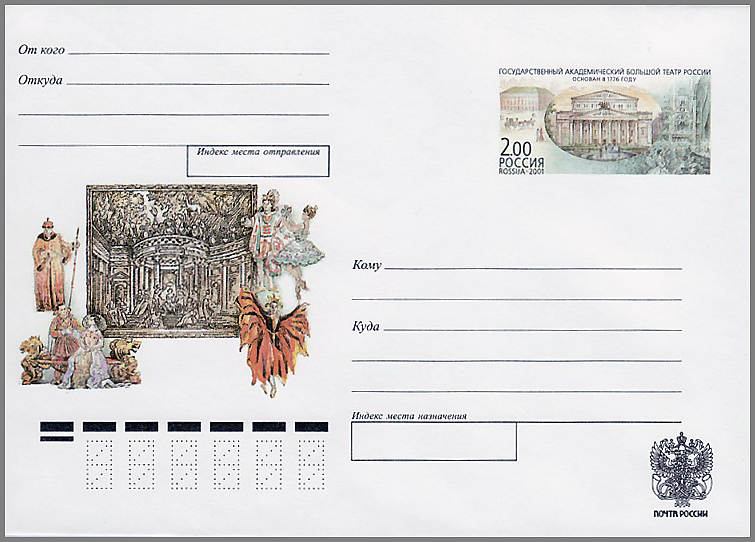 Russia, 2001. Envelope with commemorative stamp (EWCS) № 99. 225th anniversary of the Bolshoi Theater. Painter Y. Artsimenev.